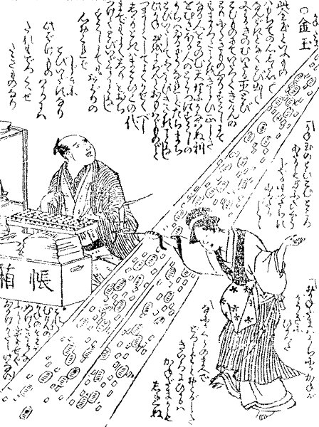 Kanedama (金玉, the spirit of money) from Kaidan momonjī (怪談摸摸夢字彙, Kusazōshi)